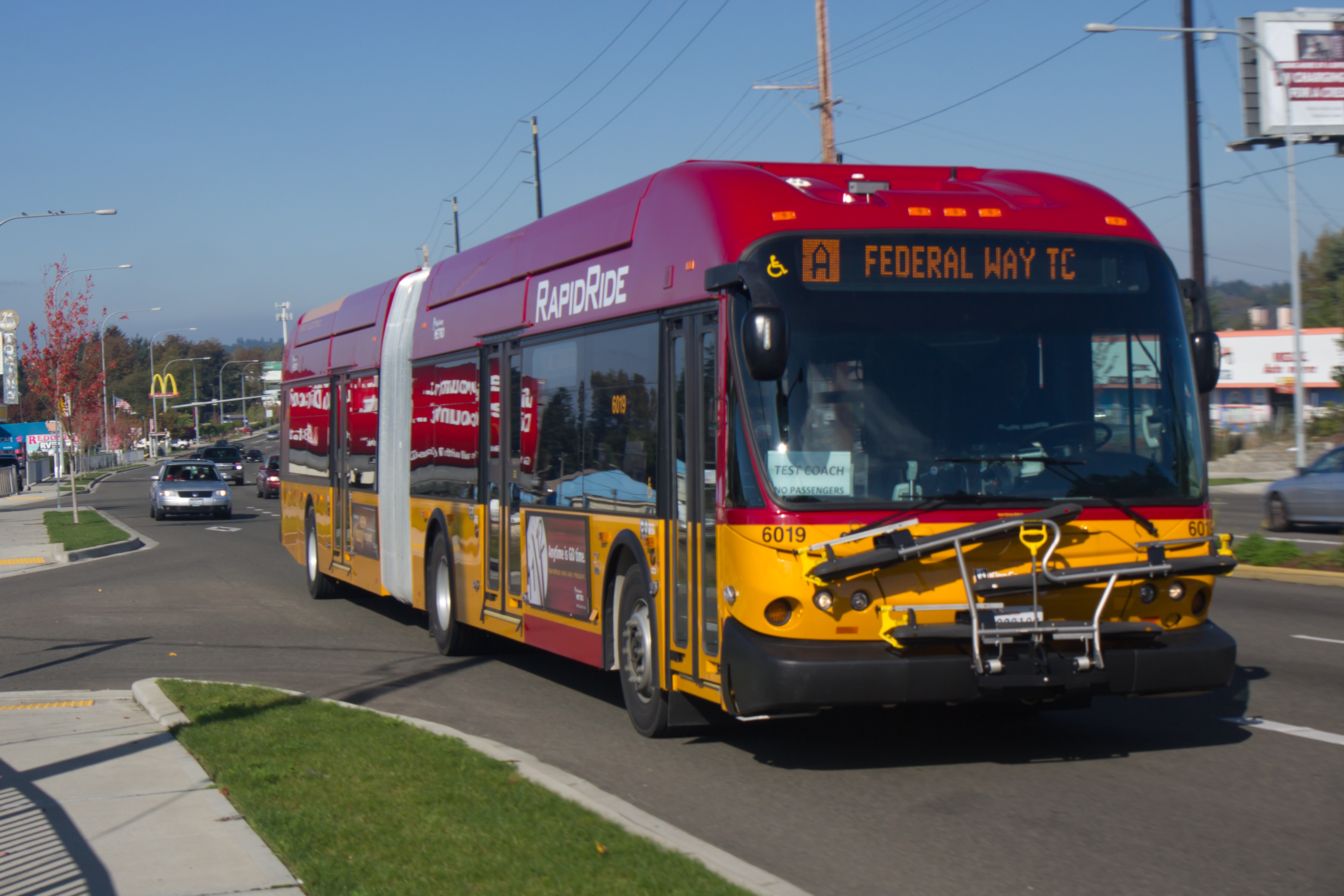 A King County Metro RapidRide bus conducting Pre-Revenue Service Simulation.